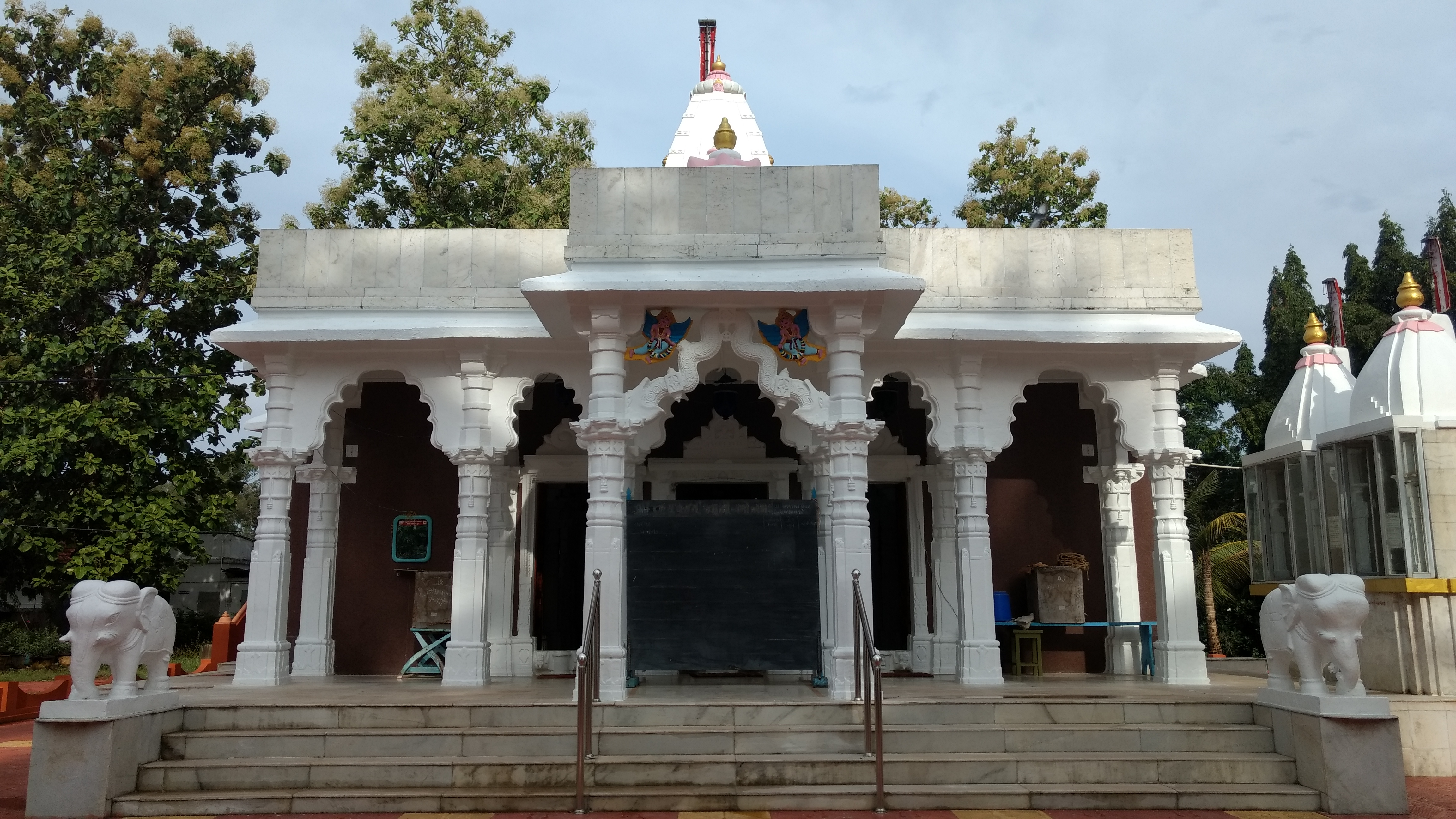 Front view of Jain Temple, Alappuzha, Kerala